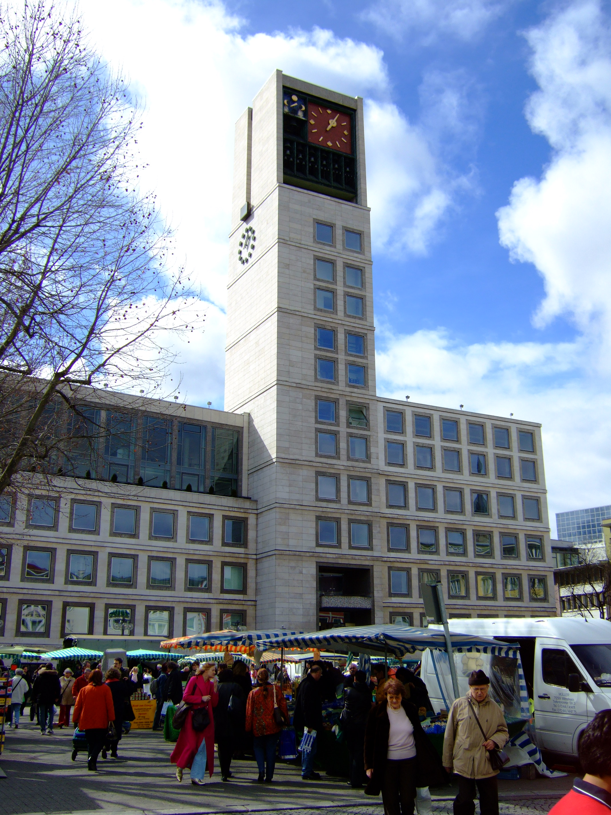 Townhall of Stuttgart/Germany